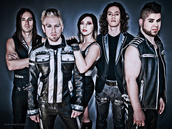 Promotional photo for electronic rock band The Rabid Whole.